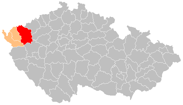 Karlovy Vary District within Karlovy Vary Region. Current borders of districts since January 1, 2007.